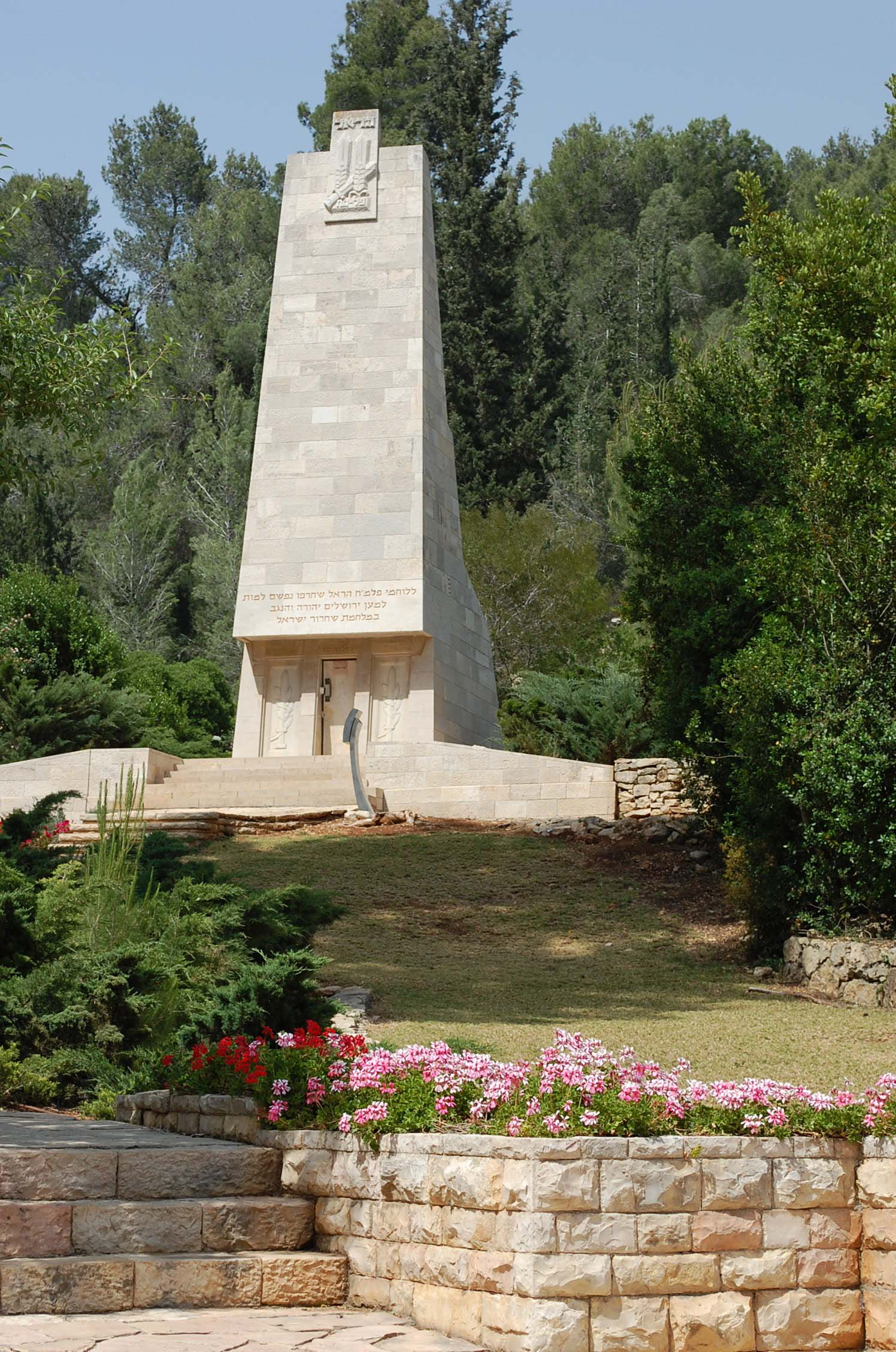 A monument in the cemetery at kibbutz Kiryat Anavim. Česky: Památník na vojenském hřbitově u Kirjat Anavim